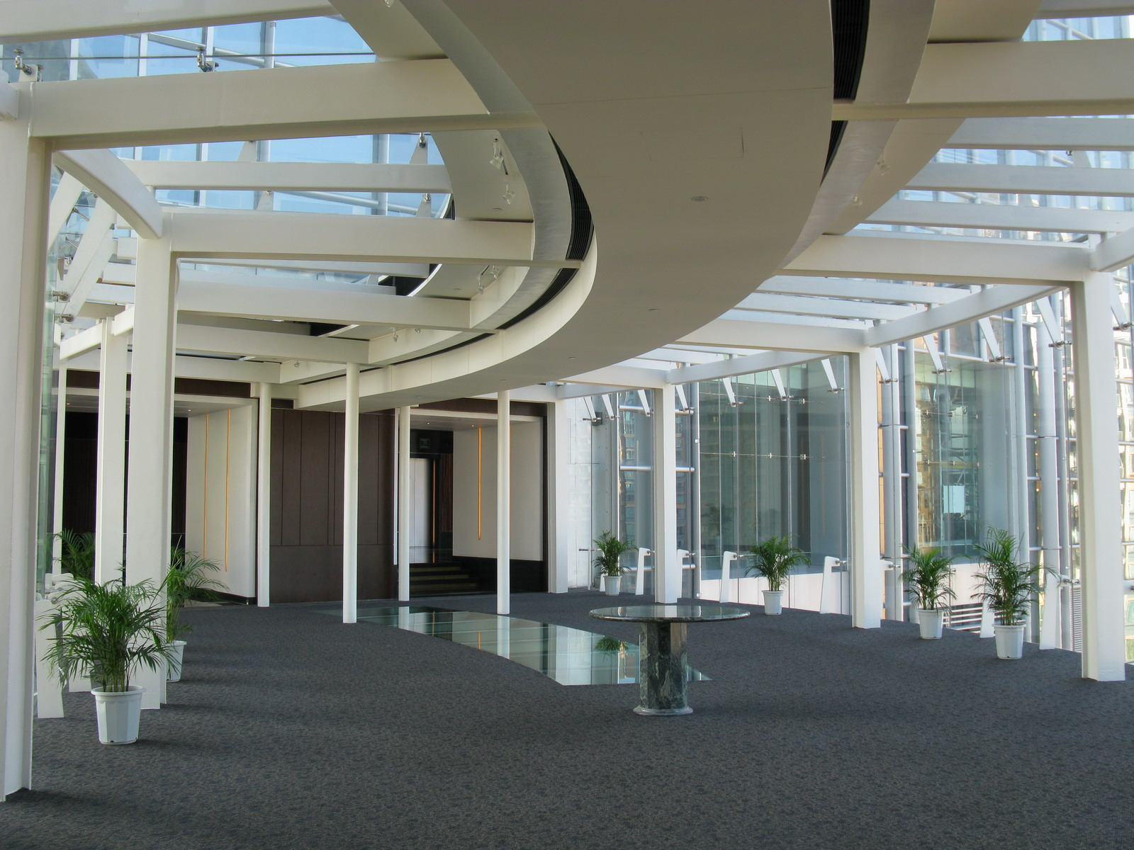 Skybridge located at 41/F of Nina Tower